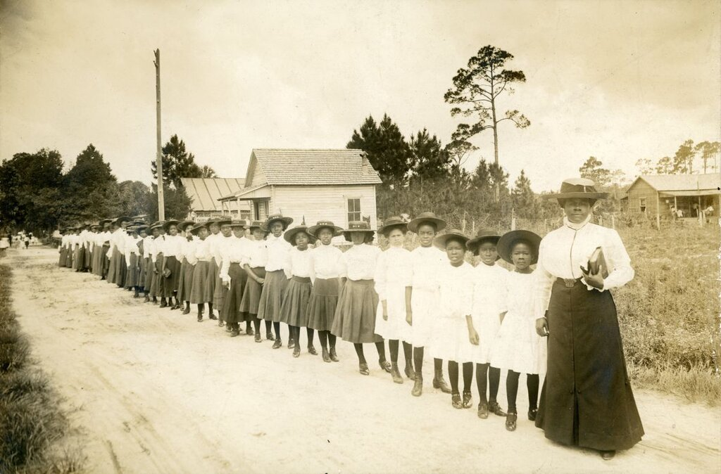 Mary McLeod Bethune with girls from the Literary and Industrial Training School for Negro Girls in Daytona, circa 1905. Source: Photographs of Mary McLeod Bethune, her school, and family from the Florida State Archives Photographic Collection. Retrieved October 22, 2007.